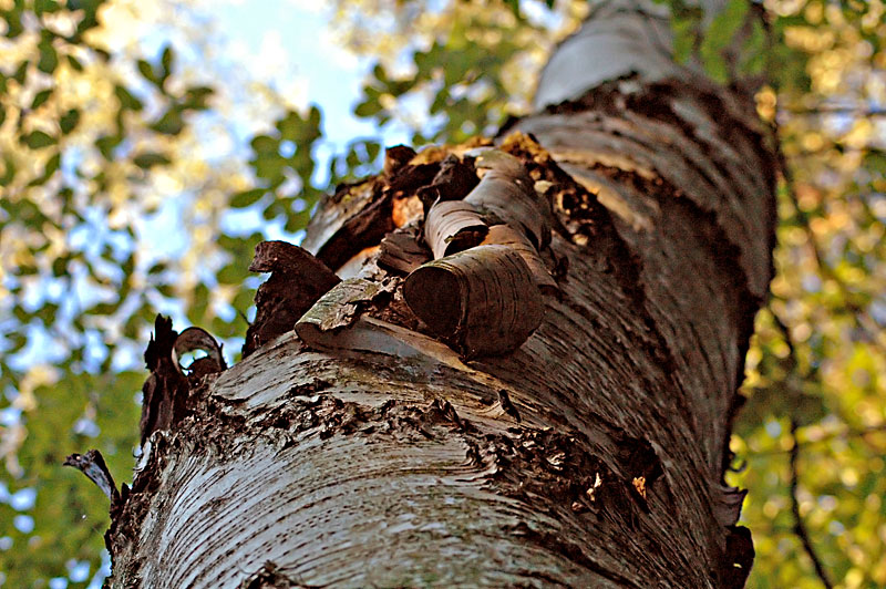 The bark of a Cherry birch — Betula lenta.